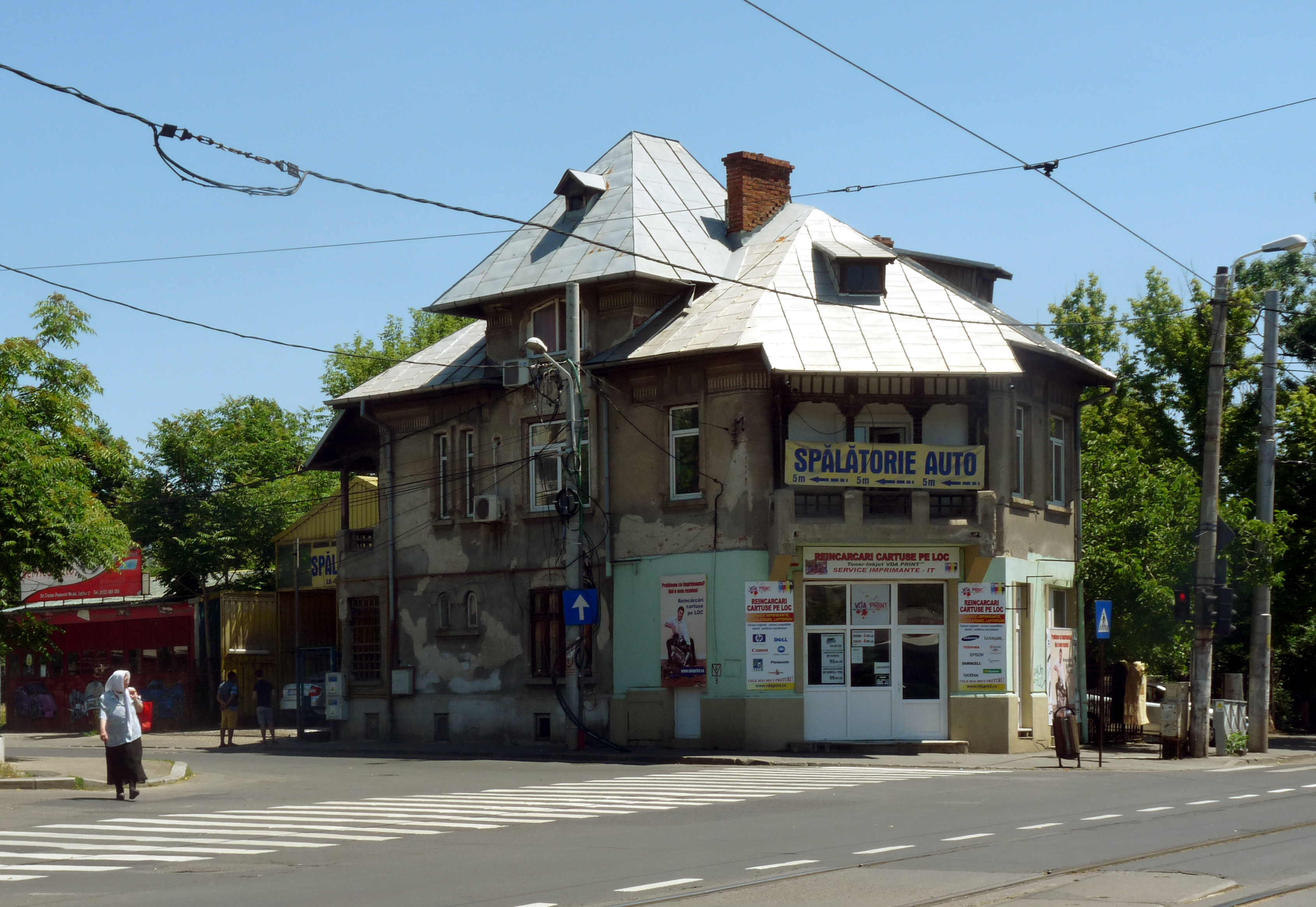 Historical building in 82 Traian Popovici street, Bucharest, RomaniaRomână: Clădire istorică din strada Traian Popovici (fostă Unității) nr. 82, București, România